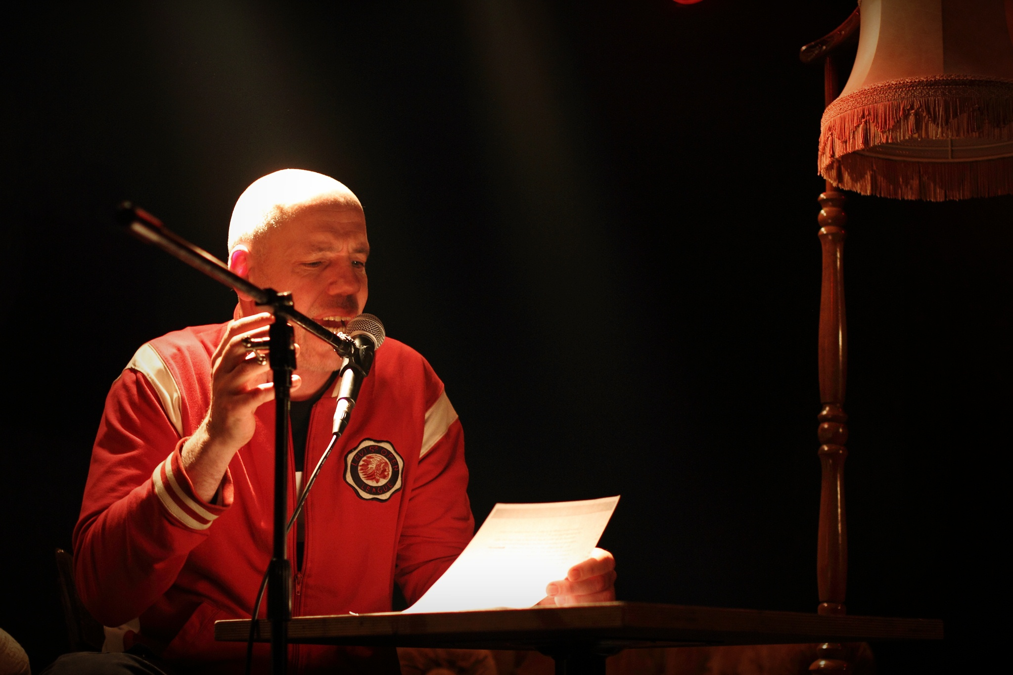 Jan Off